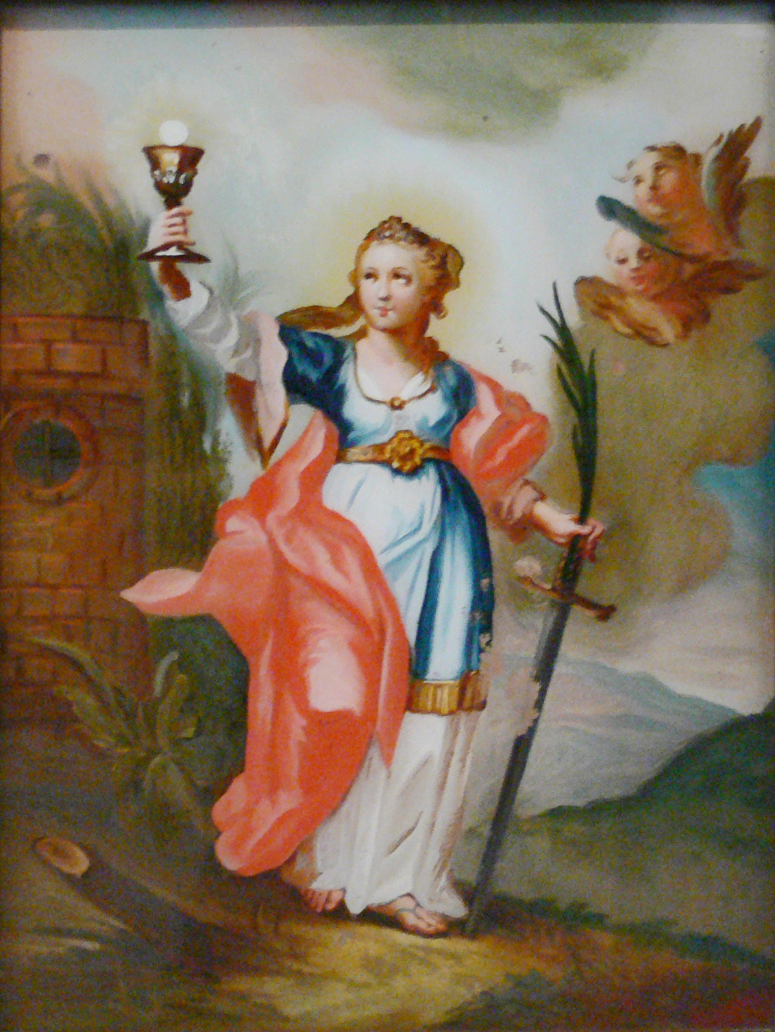 in Fichte-/Nußbaumrahmen, second quarter of 19th century